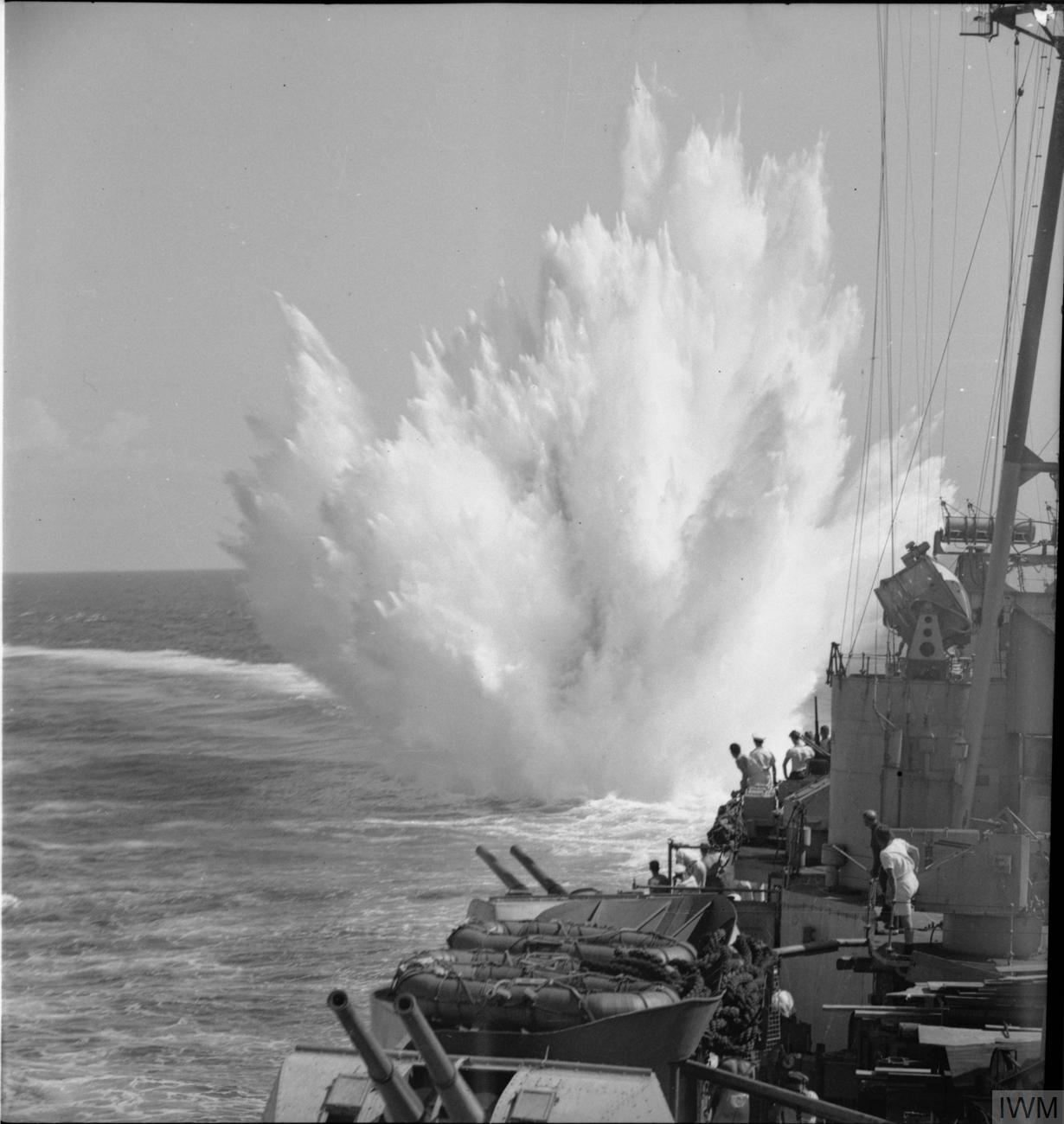 IWM caption : A depth charge explodes after it had been dropped from HMS CEYLON. The ship had just made a call at Colombo the capital of Ceylon.